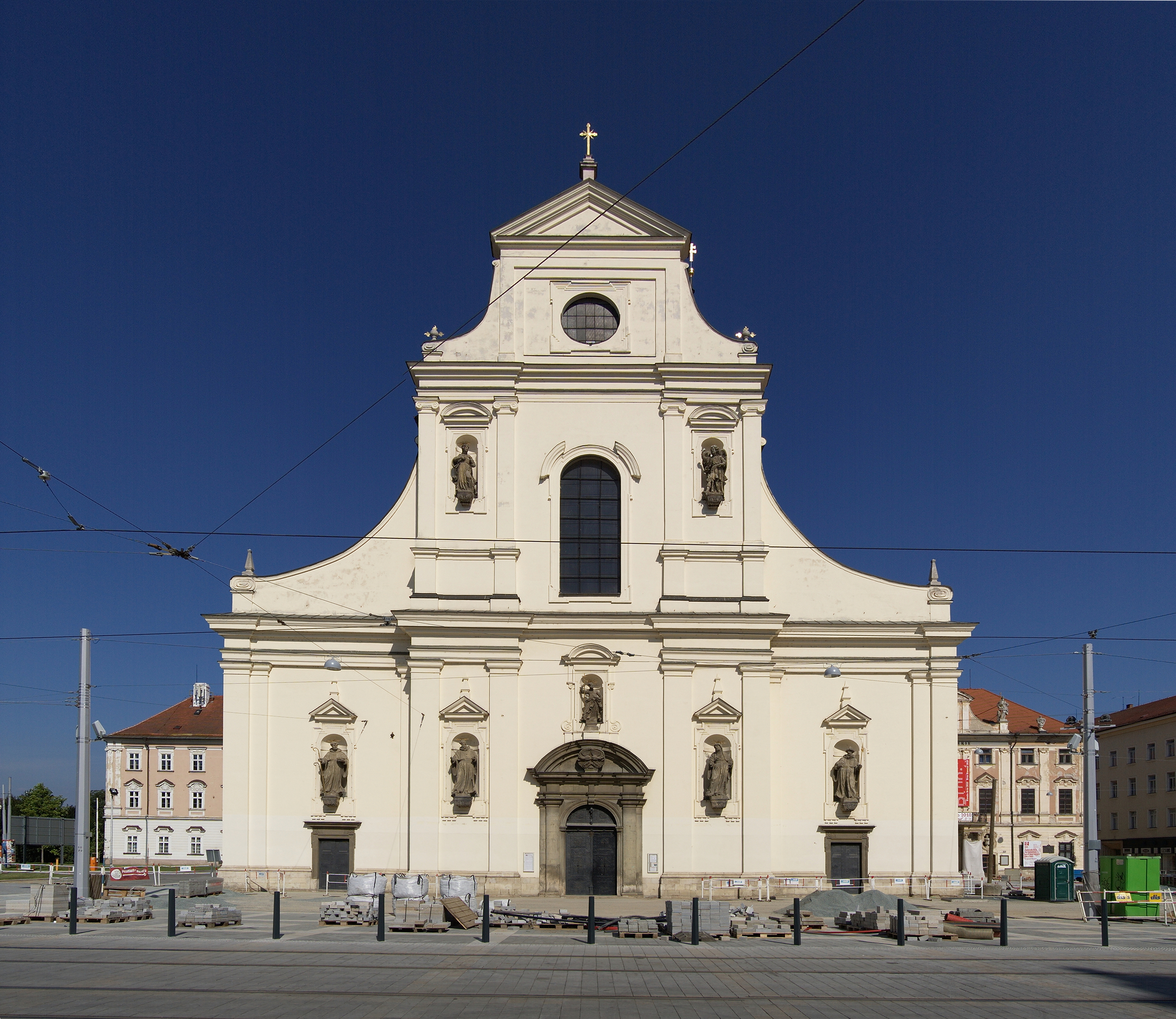 Church of the Saint Thomas (Brno). This image was created with Hugin.